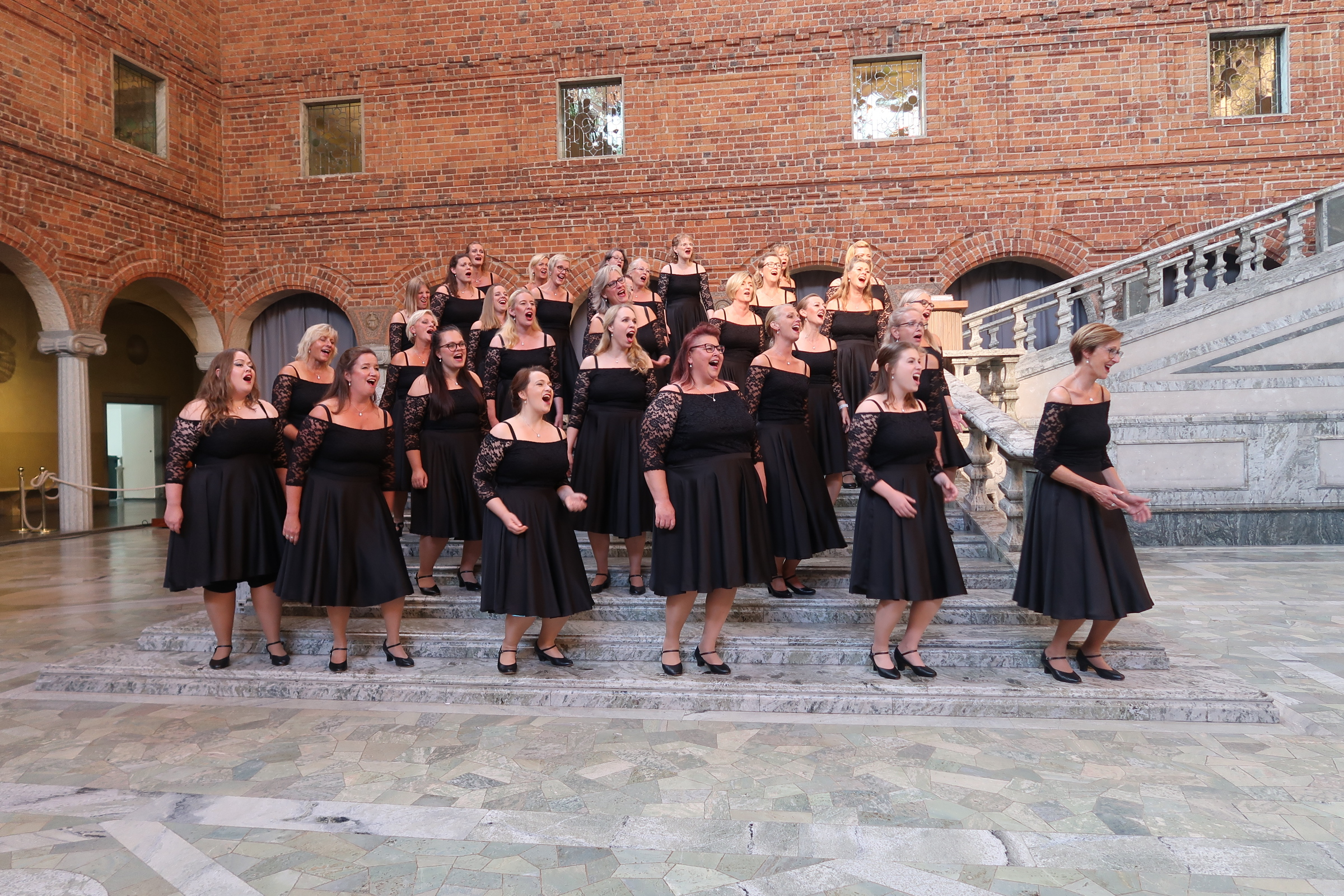 Wikimania 2019. Welcome reception.